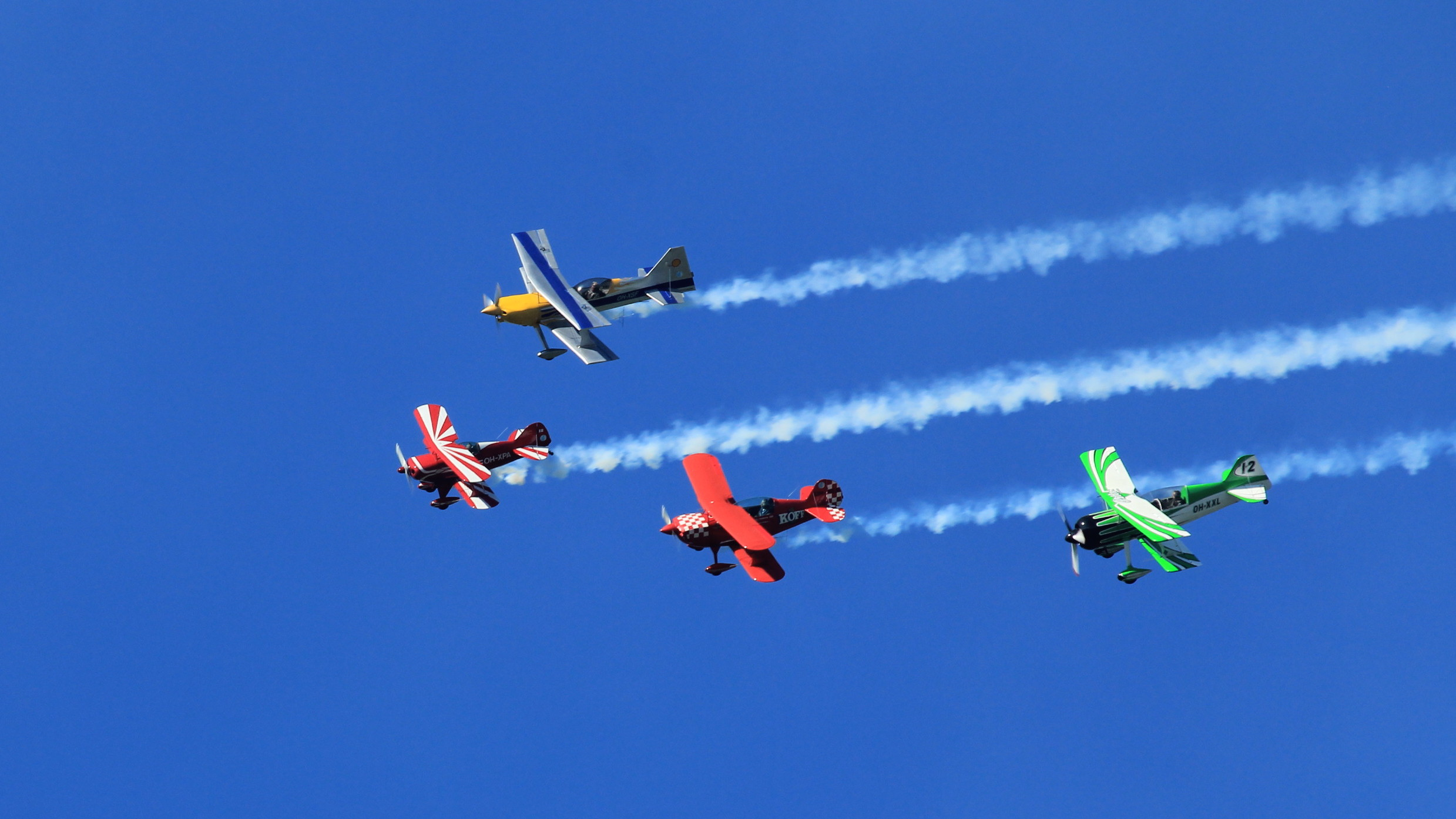 Team "Arctic Eagles" at Turku Airshow 2019, Finland.